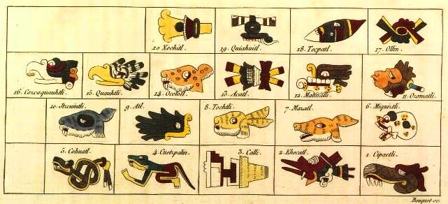 Aztec calendar